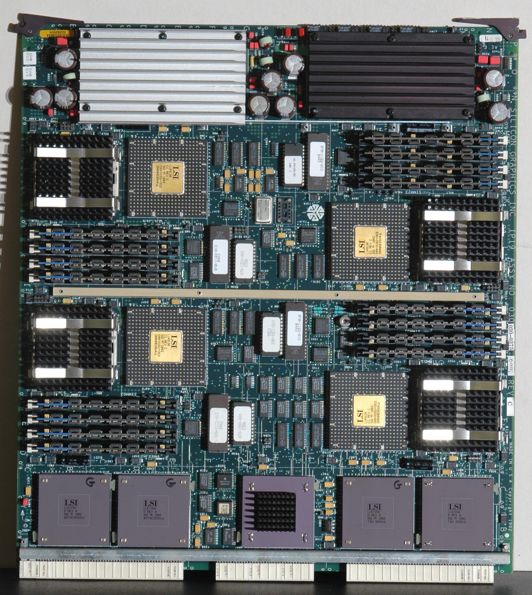 SGI IP19 CPU board with quad MIPS R4400 CPUs. From the collection of the RCS/RI.